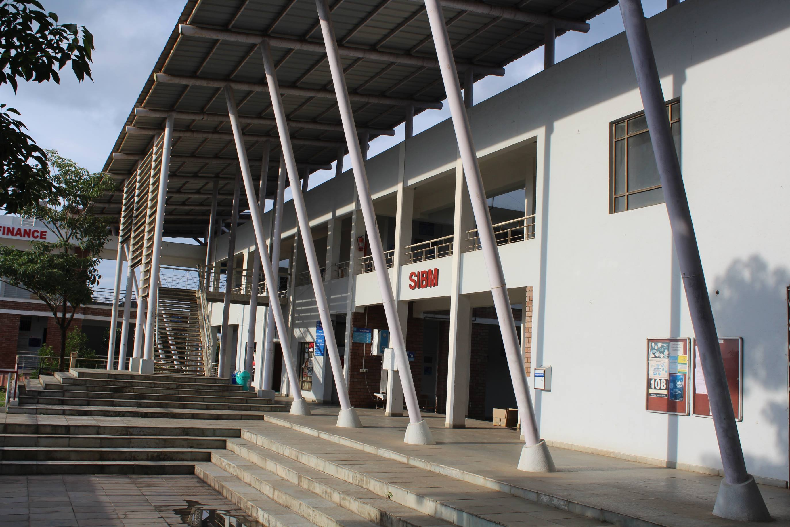 A calm evening at SIBM Pune